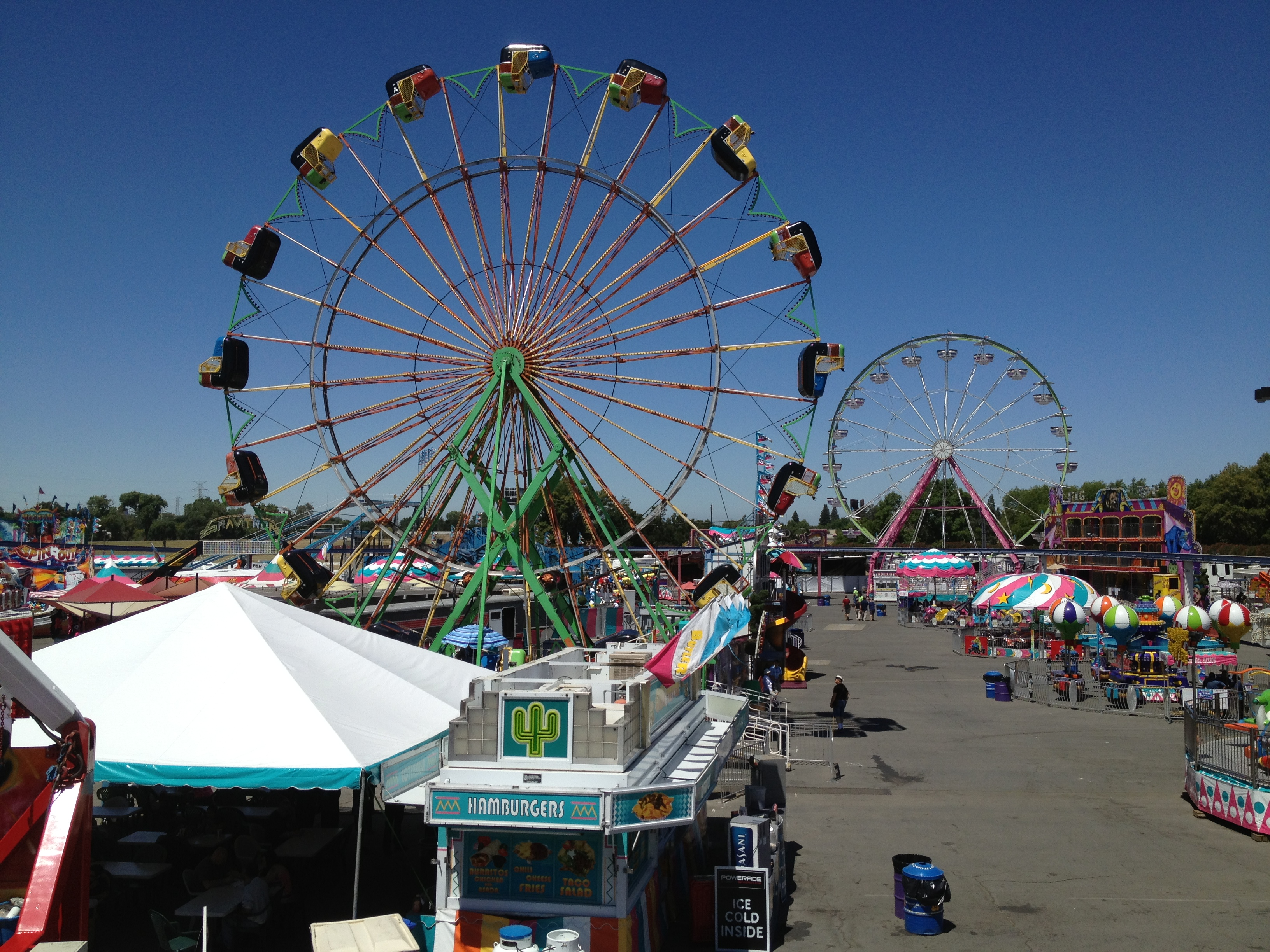 It's been a couple years since we visited the state fair. This year we went on a Monday. Luckily the temps only got into the 90s. We started the day right when the gates opened at 11 AM and stayed until 8 PM (I think I walked 8 miles at the fair). We rode the monorail, learned about fire safety from Smokey the Bear and his friends, visited the super heroes in the Hall of Heroes, and collected tourist information from the county exhibits.